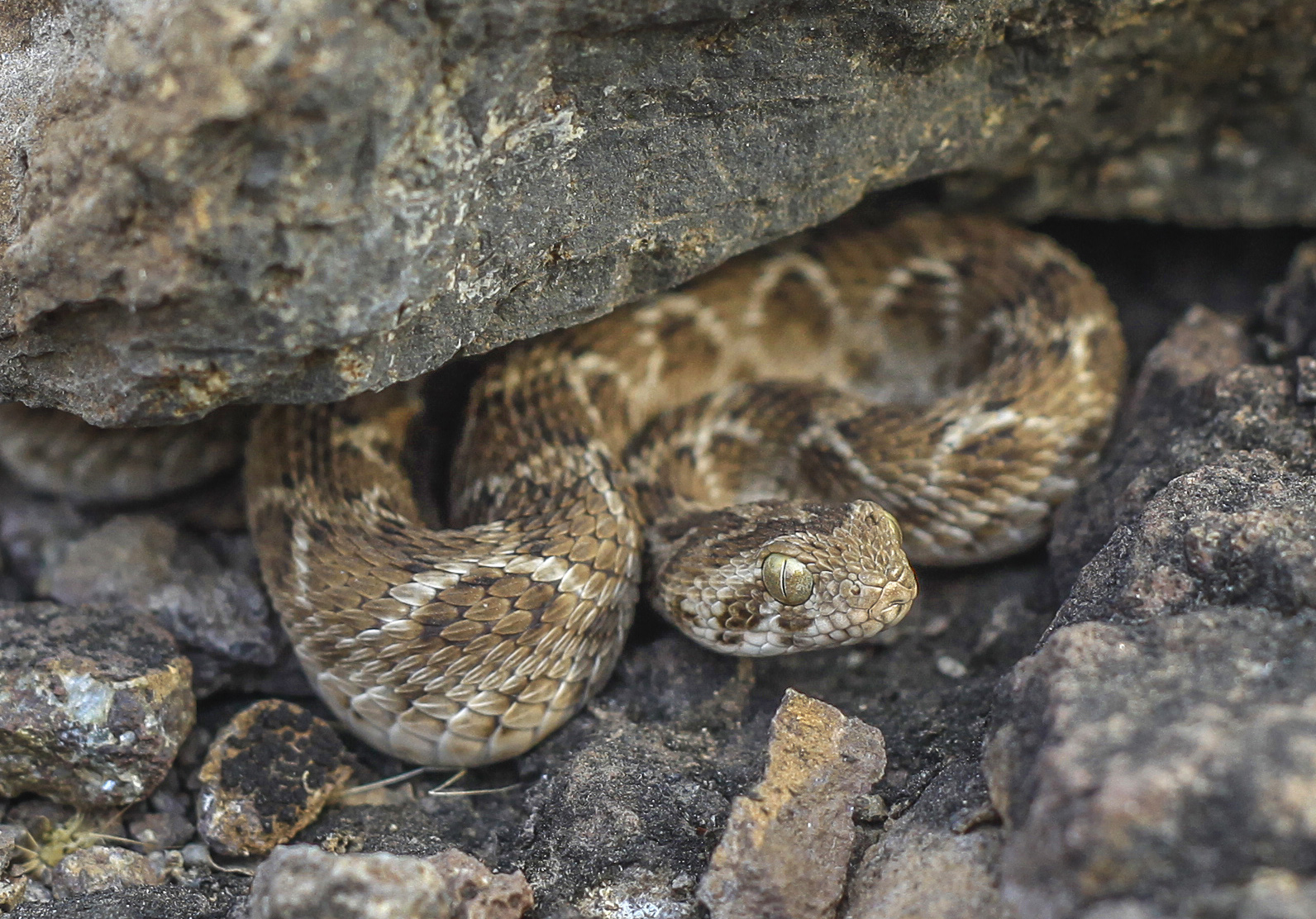 Echis carinatus is venomous snake